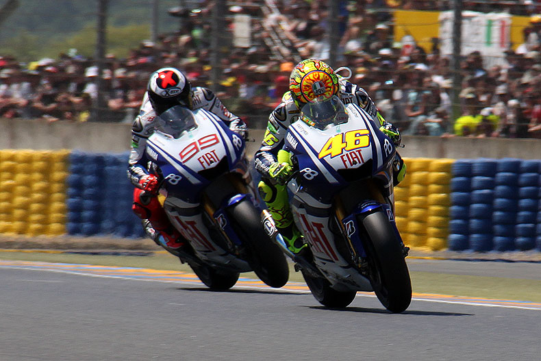 GP of France